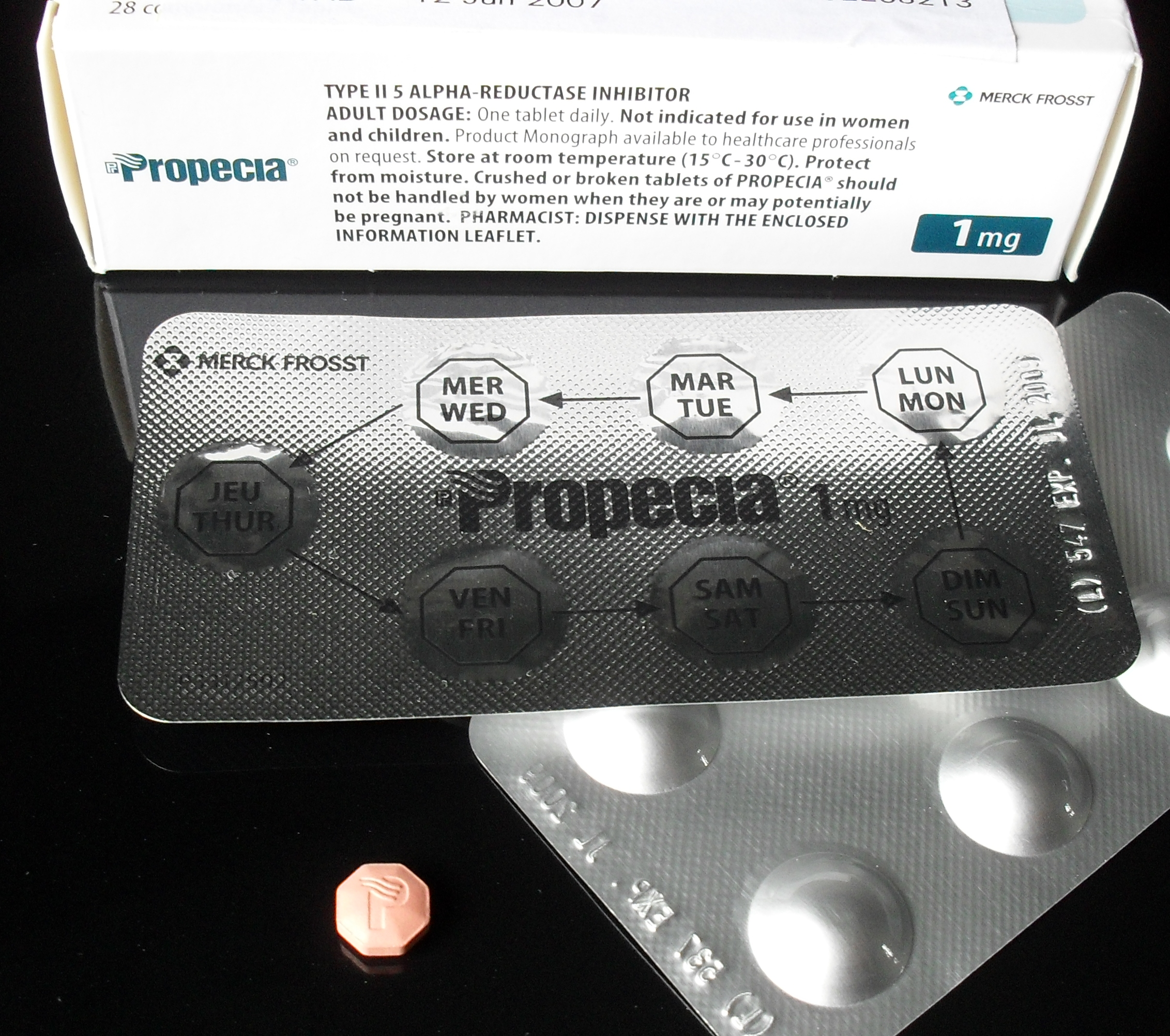 Propecia (Canadian packaging)